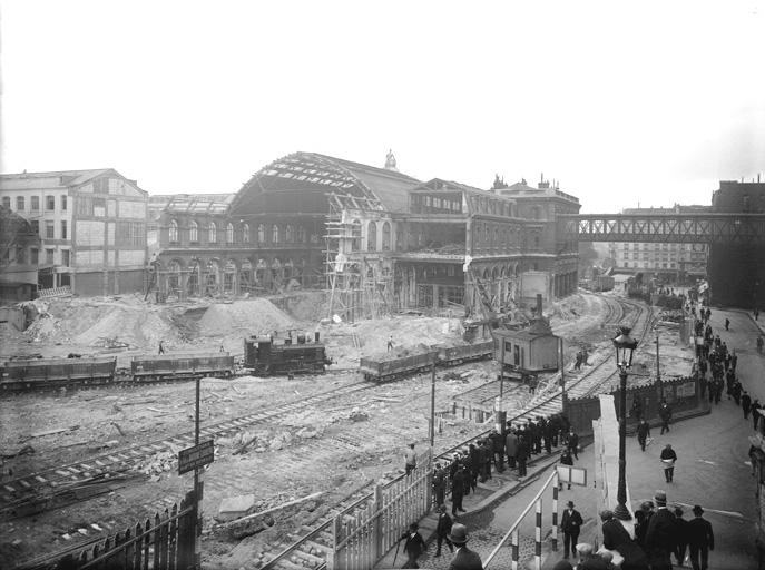 Rebuilding works of gare de l'Est in Paris in the 1930s